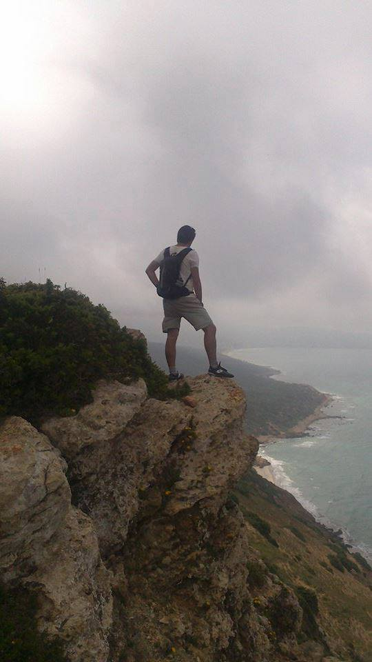 one of the most beautiful position in tunisia , haouaria